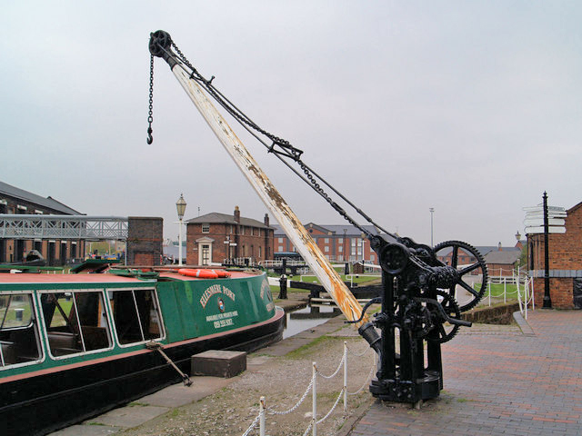 National Waterways Museum Ellesmere Port. The £8.50 entrance fee includes a 30 minute cruise in the barge in the foreground down the canal and back.